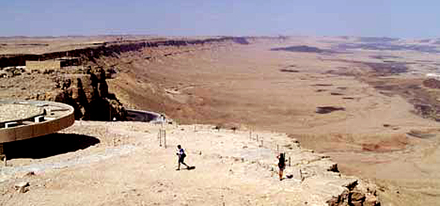 Ramon Crater near Mitzpe Ramon in Israel